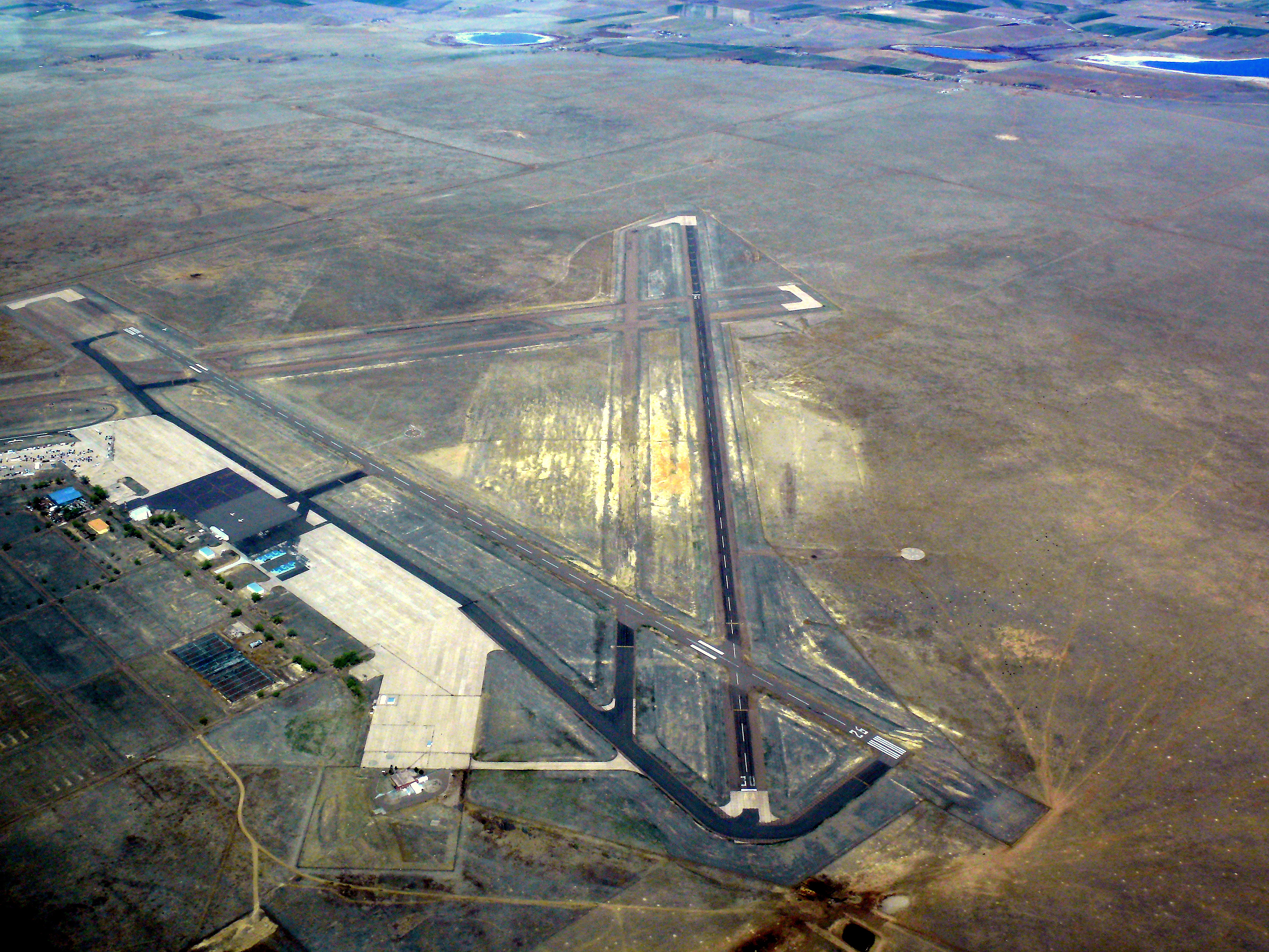 La Junta Municipal Airport as seen from 9500MSL in April 2008